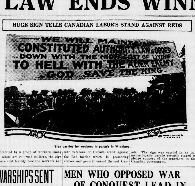 Anti-Strike Banner used in Loyalist Veterans Parade We Will Maintain Constituted Authority, Law & Order. Down With The High Costs Of Living To Hell With The Alien Enemy ... God Save The King ...